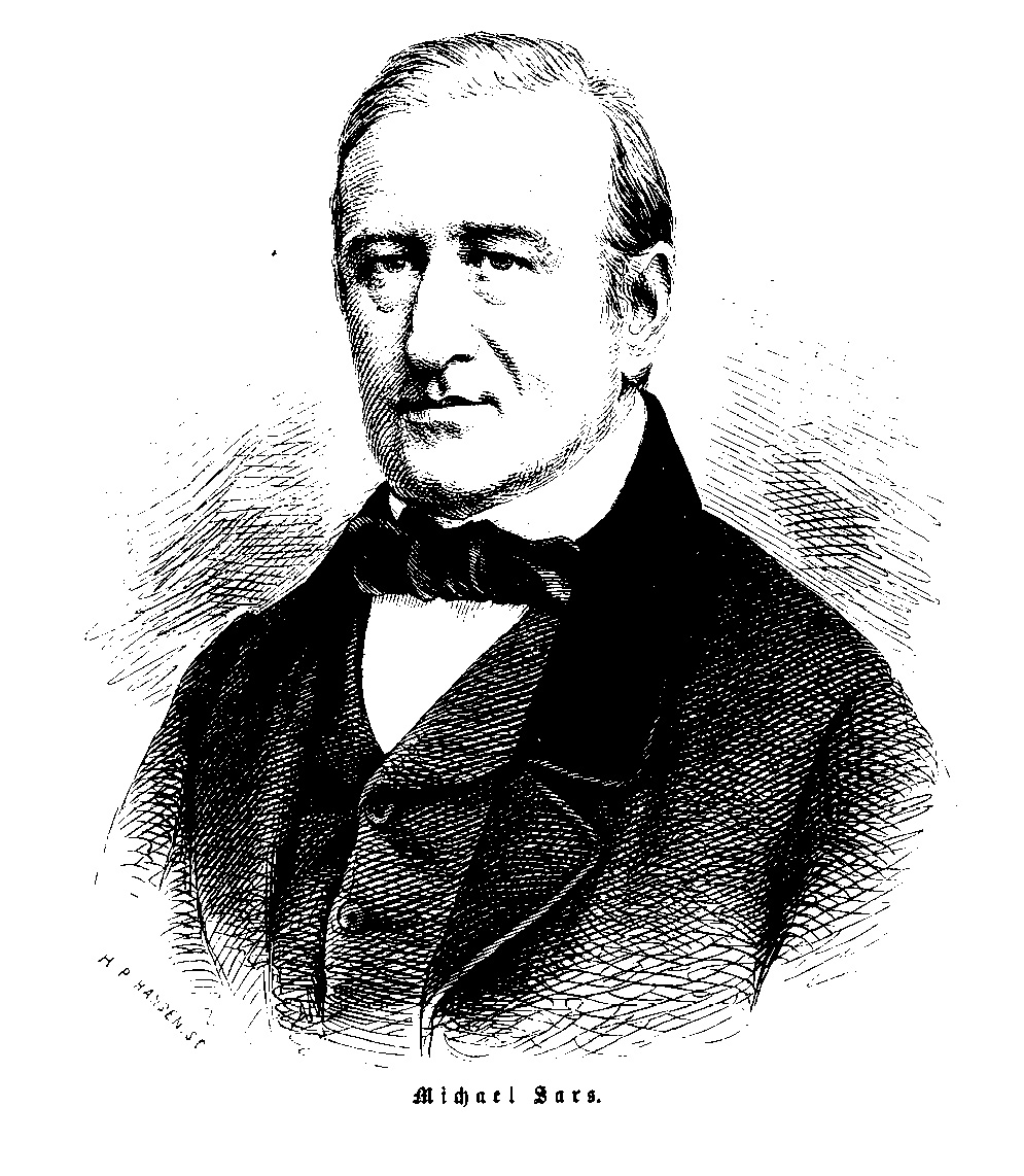 The Norwegian zoologist Michael Sars (1805&ndash69).